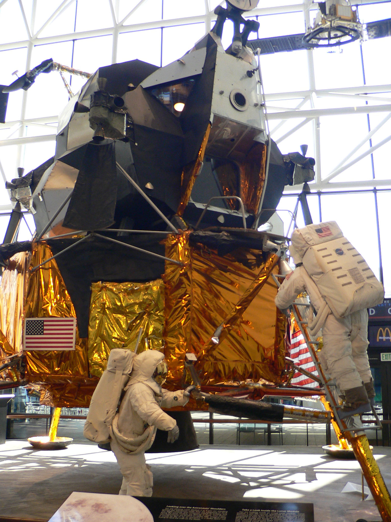 Apollo Lunar Module 2 (LM-2) at the National Air and Space Museum, Washington, D.C. It was built for orbital testing, but was never used.